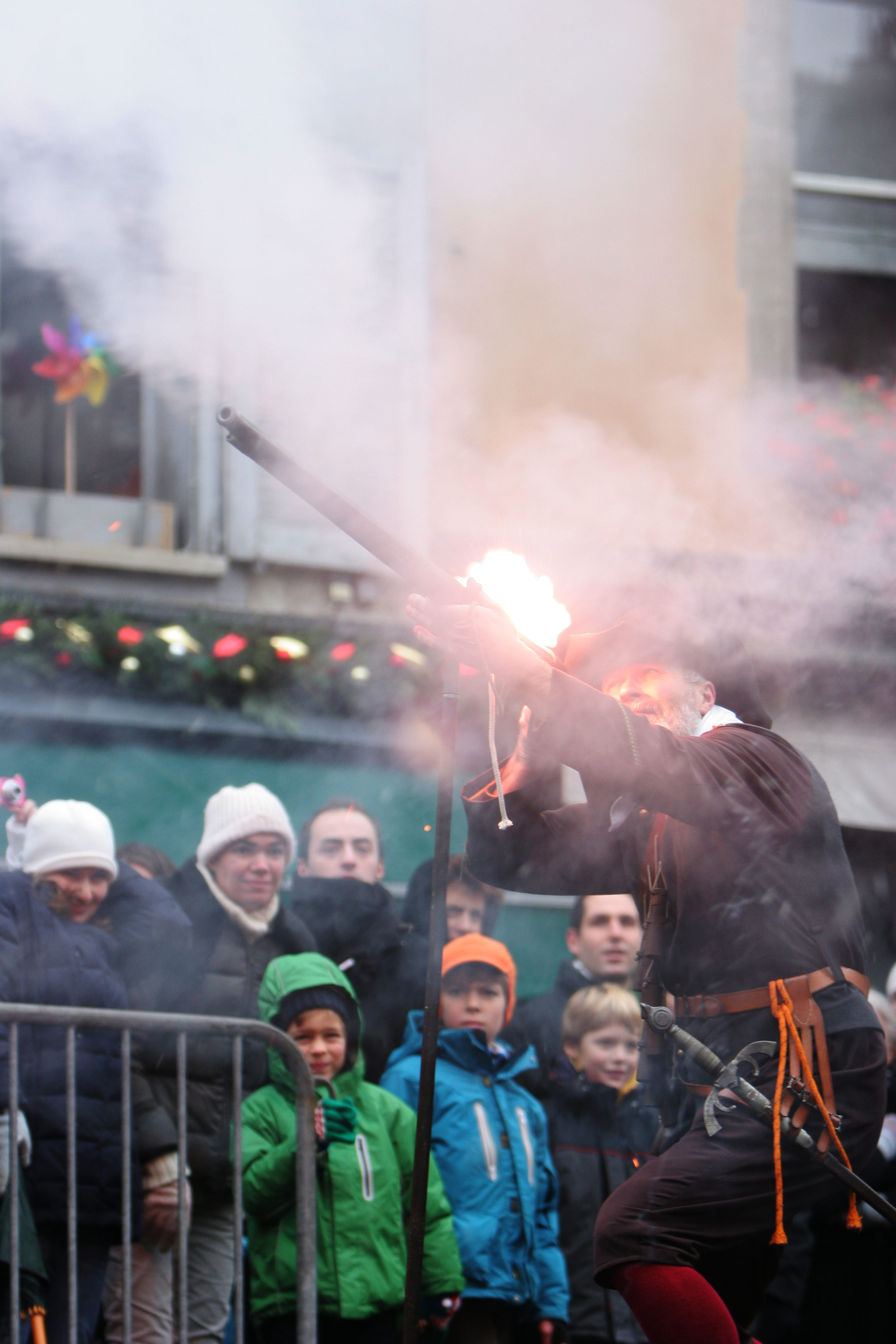 Firing of an arquebus during the Geneva Escalade of 2009. The lock has just ignited the power in the touch hole and the shot is about to go off, amidst the smoke caused by neighbouring arquebusiers.